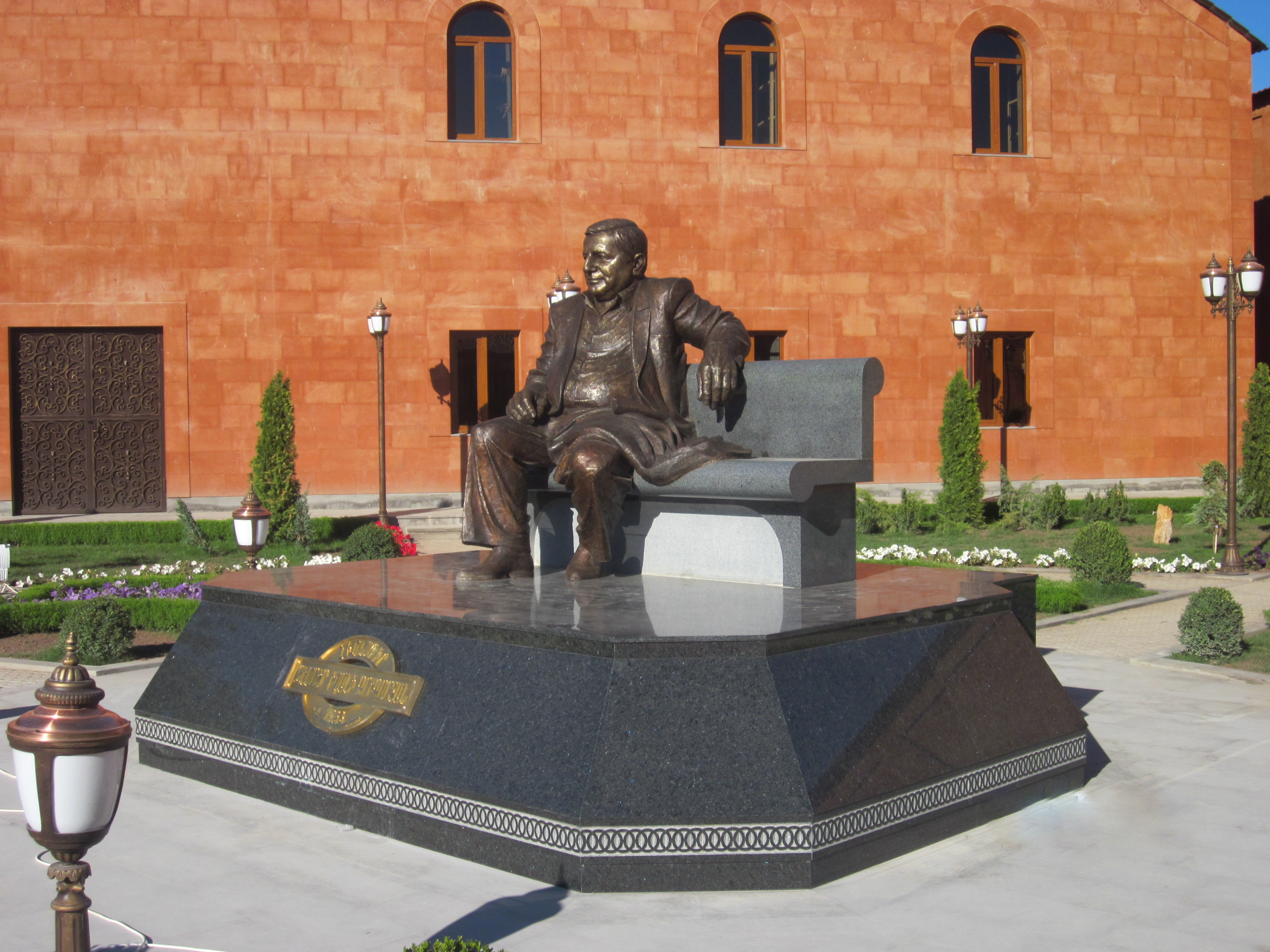 Temur Grigoryan's Monument, Avshar Wine Factory, Sculptor Robert Balayan